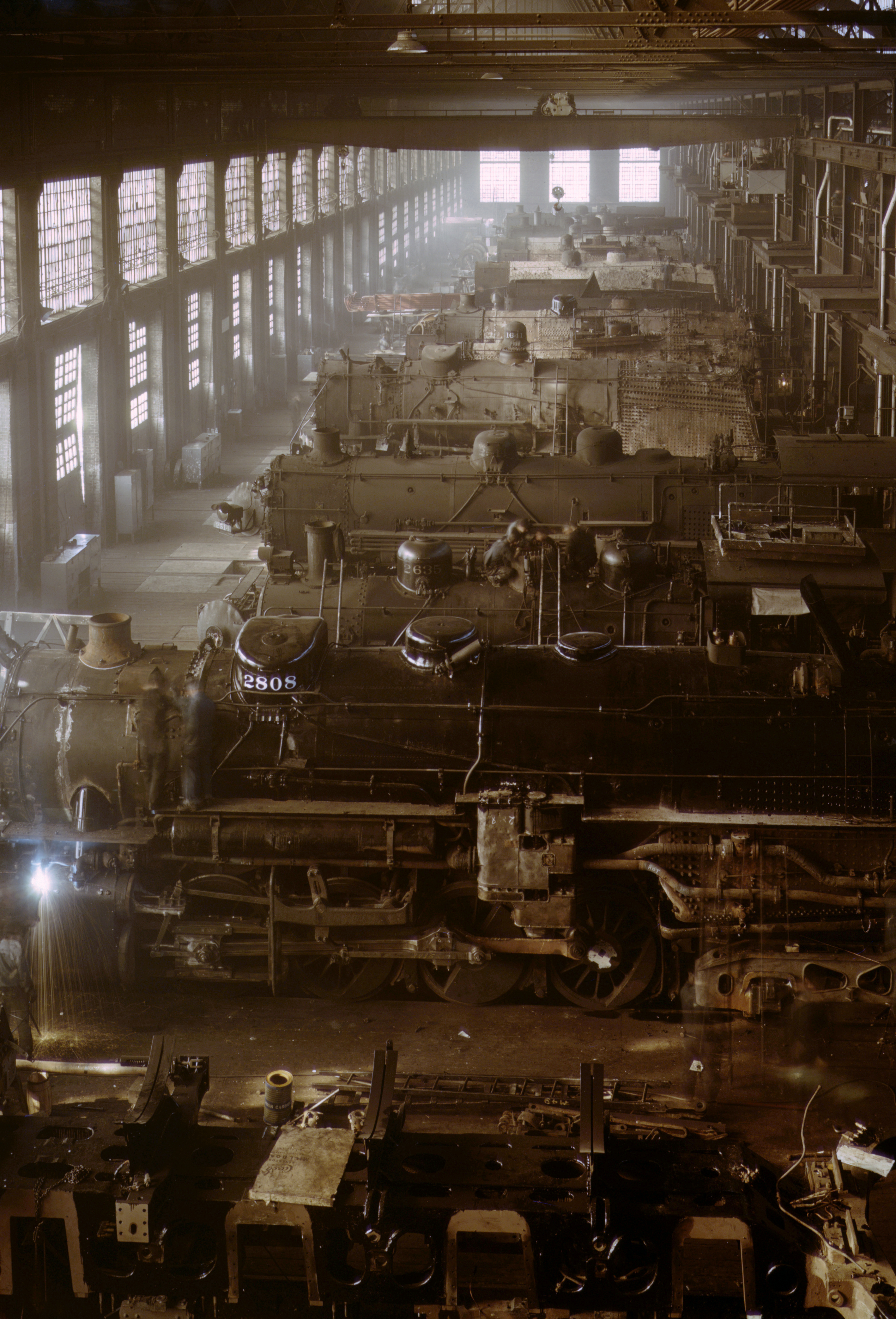 Chicago and North Western Railway locomotive shops, Chicago, Ill.